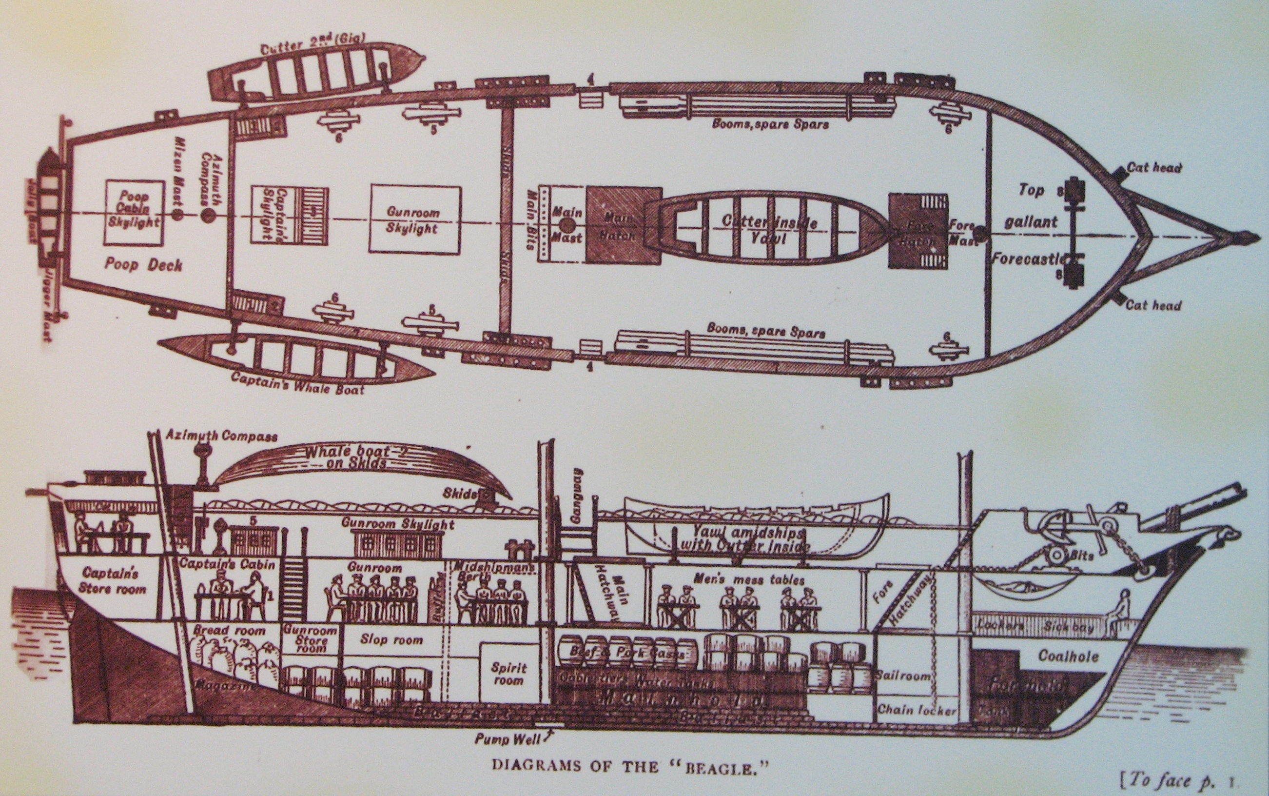 Two diagrams showing HMS Beagle during the time when Charles Darwin was on her board. Photo of a reproduction from a book by Darwin which accompanied an exhibition about Charles Darwin in the Brno museum Anthropos.